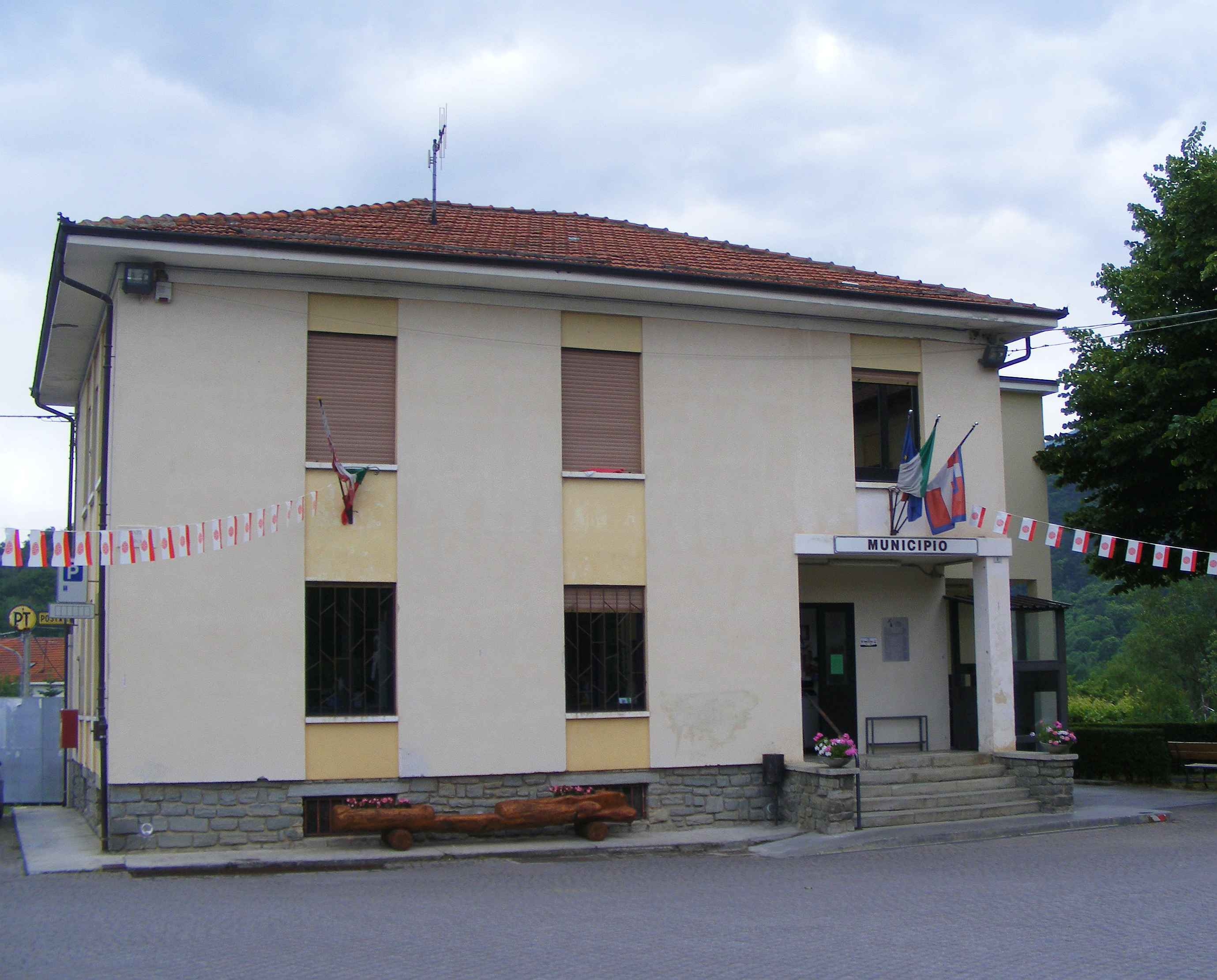 Meana di Susa (TO, Italy): town hall